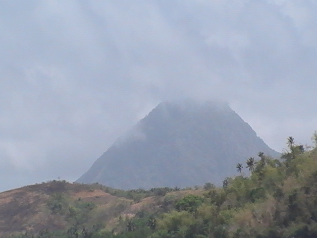 Pan de Azucar summit as seen on a cloudy day. 2009.